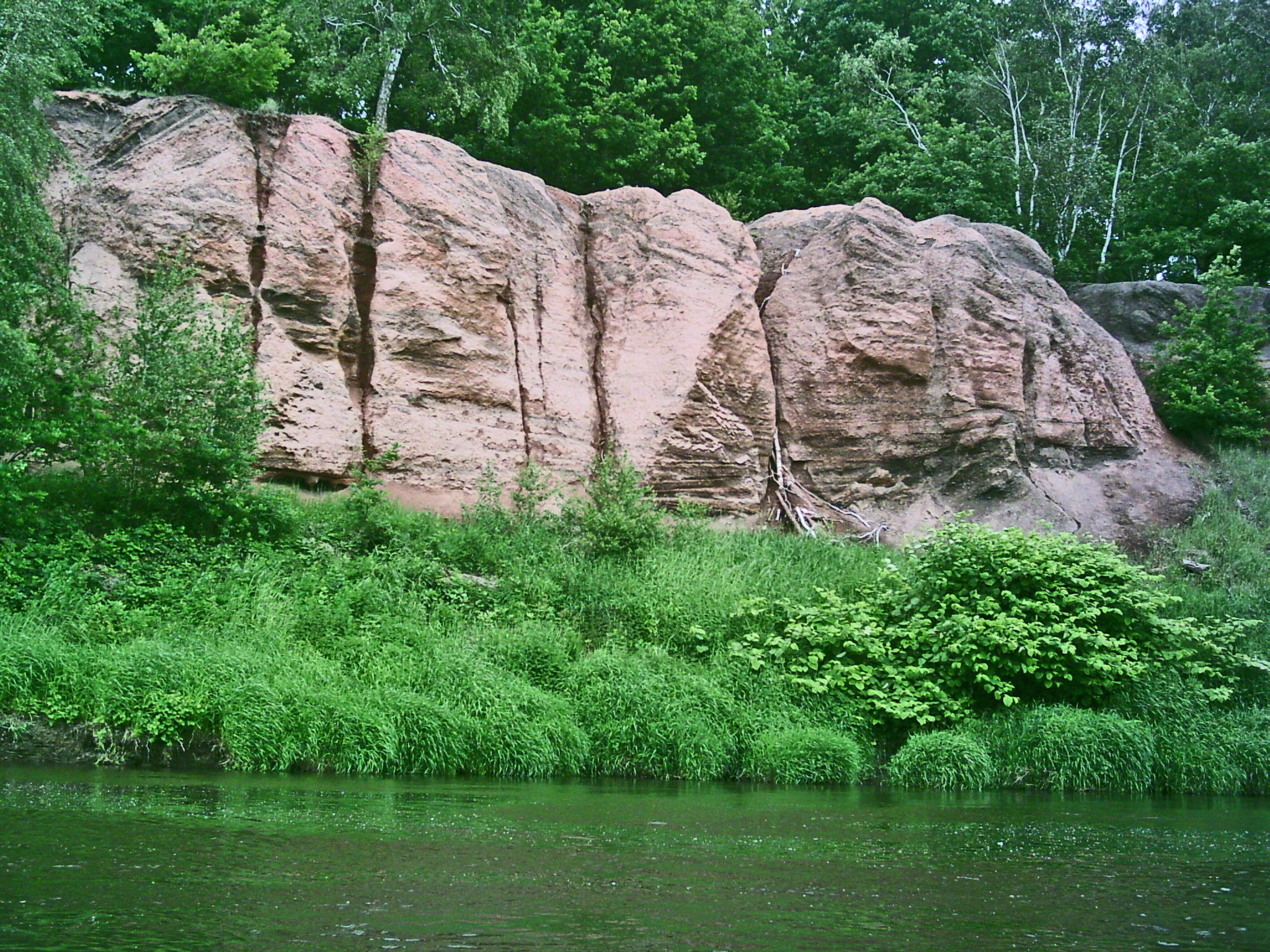 The red bank on the river Mulde of city Bad Düben